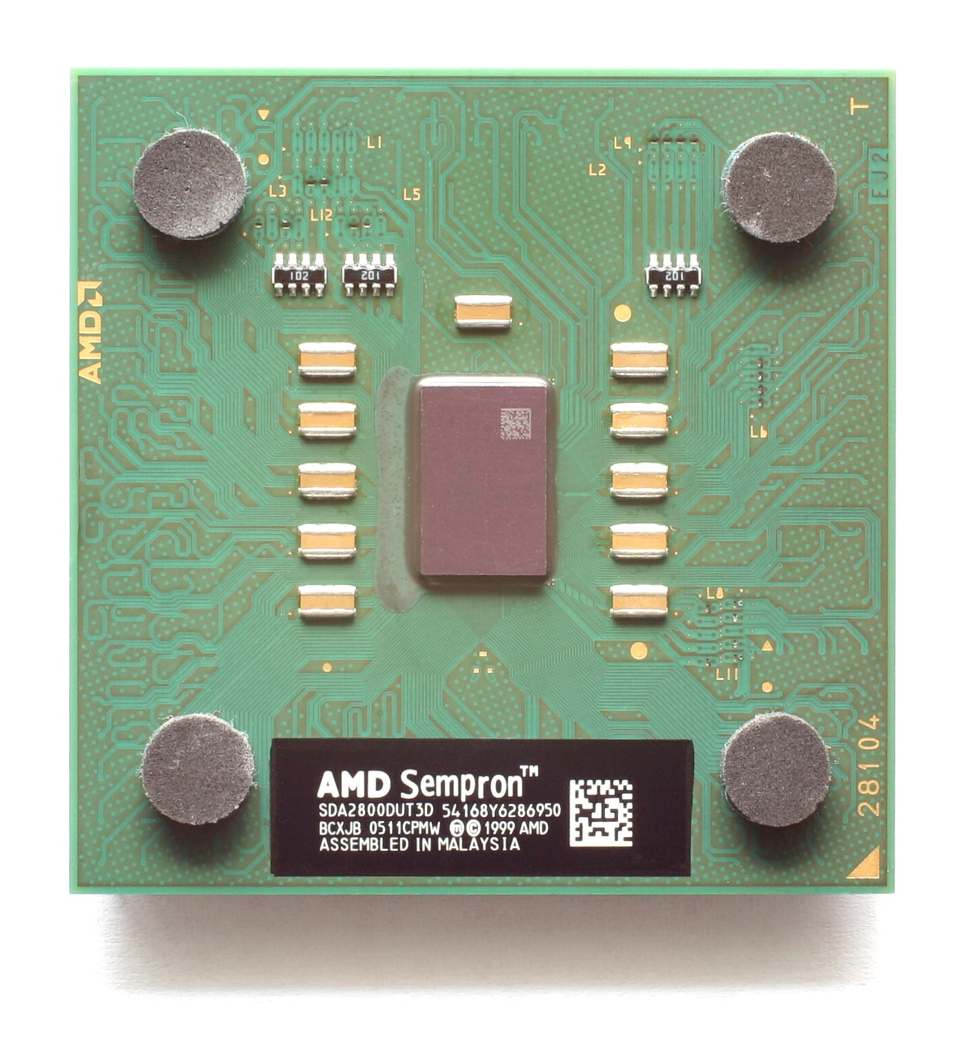 CPU AMD Sempron Thoroughbred (Fake).